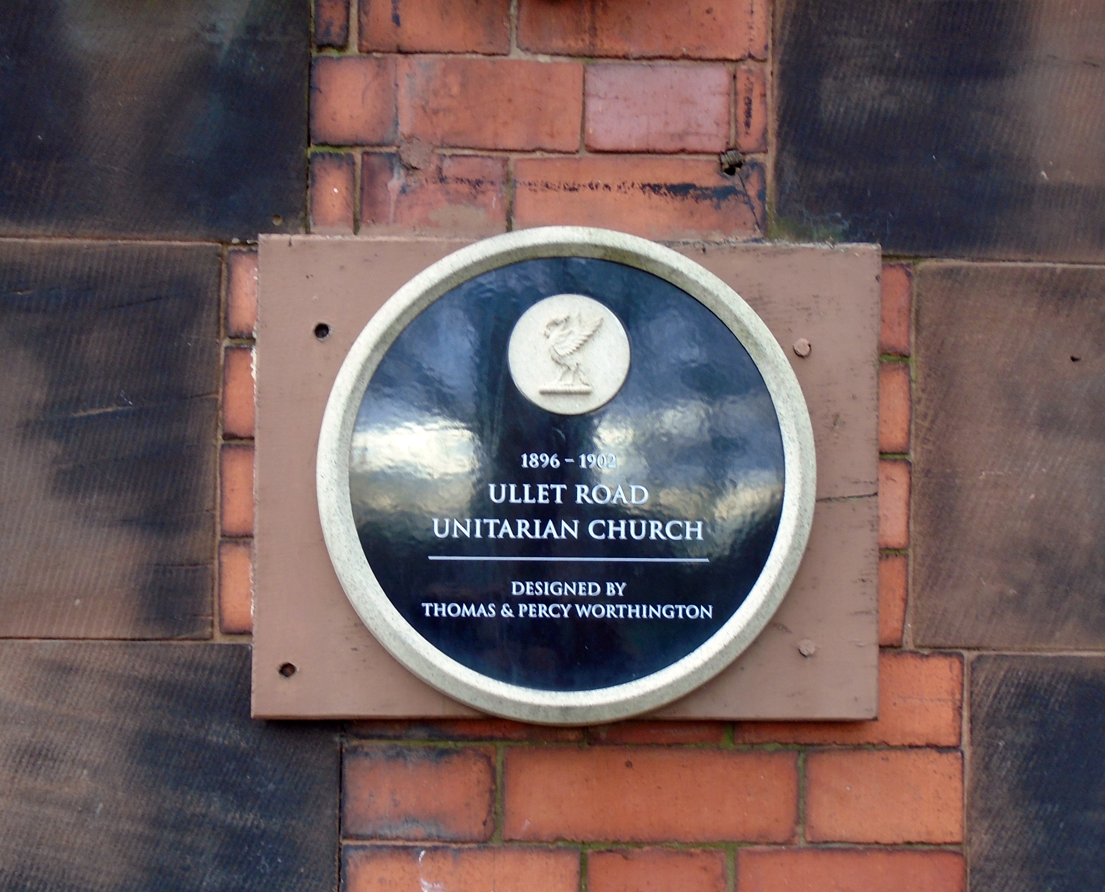 Plaque next to the front door of Ullet Road church commemorating its architects, Thomas and Percy Worthington.